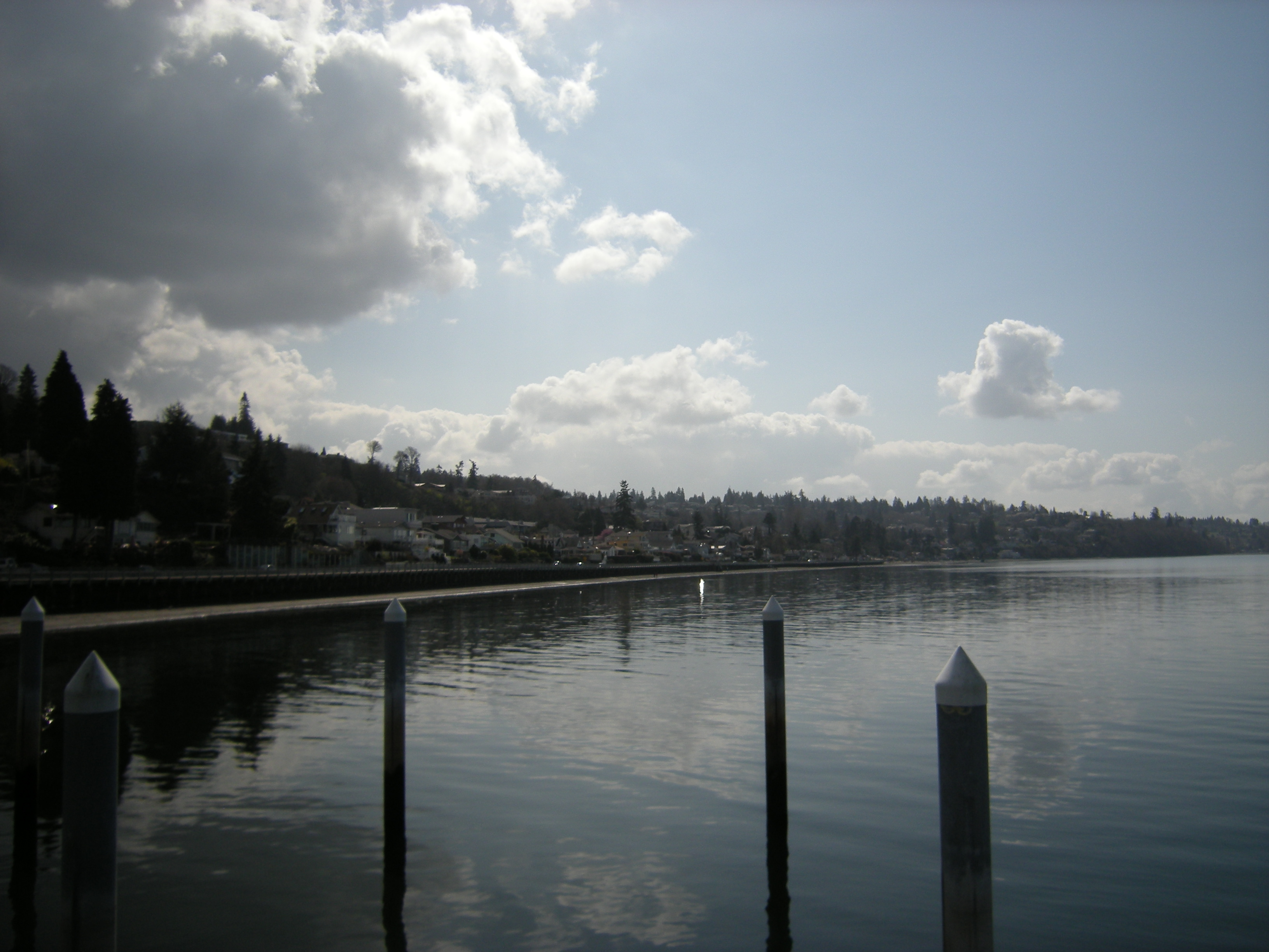 Redondo Beach, Des Moines, Washington. Looking south from fishing pier.